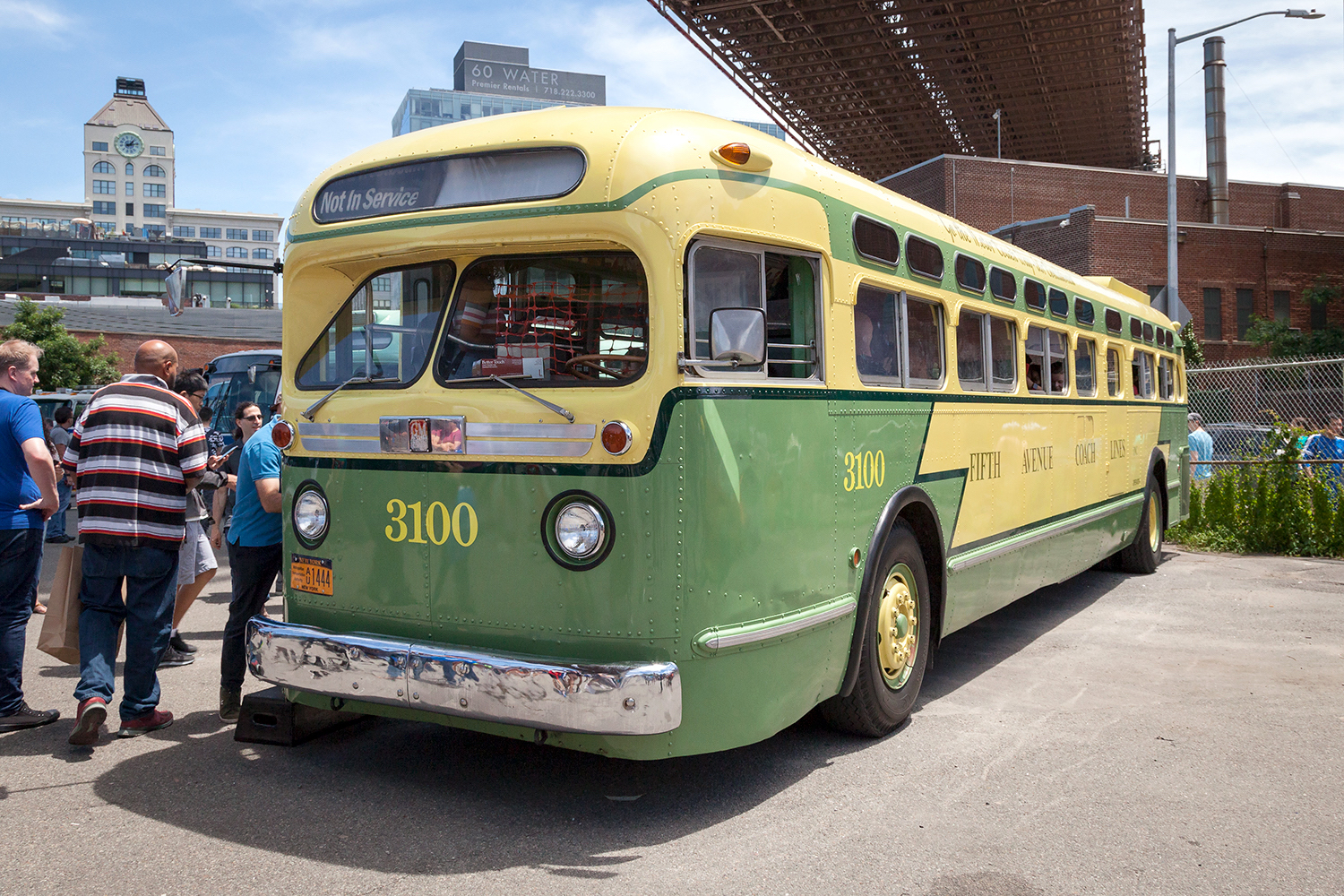 New York Transit Museum's Annual Bus Festival in Brooklyn Bridge Park (Photo gallery of DUMBO, Brooklyn)